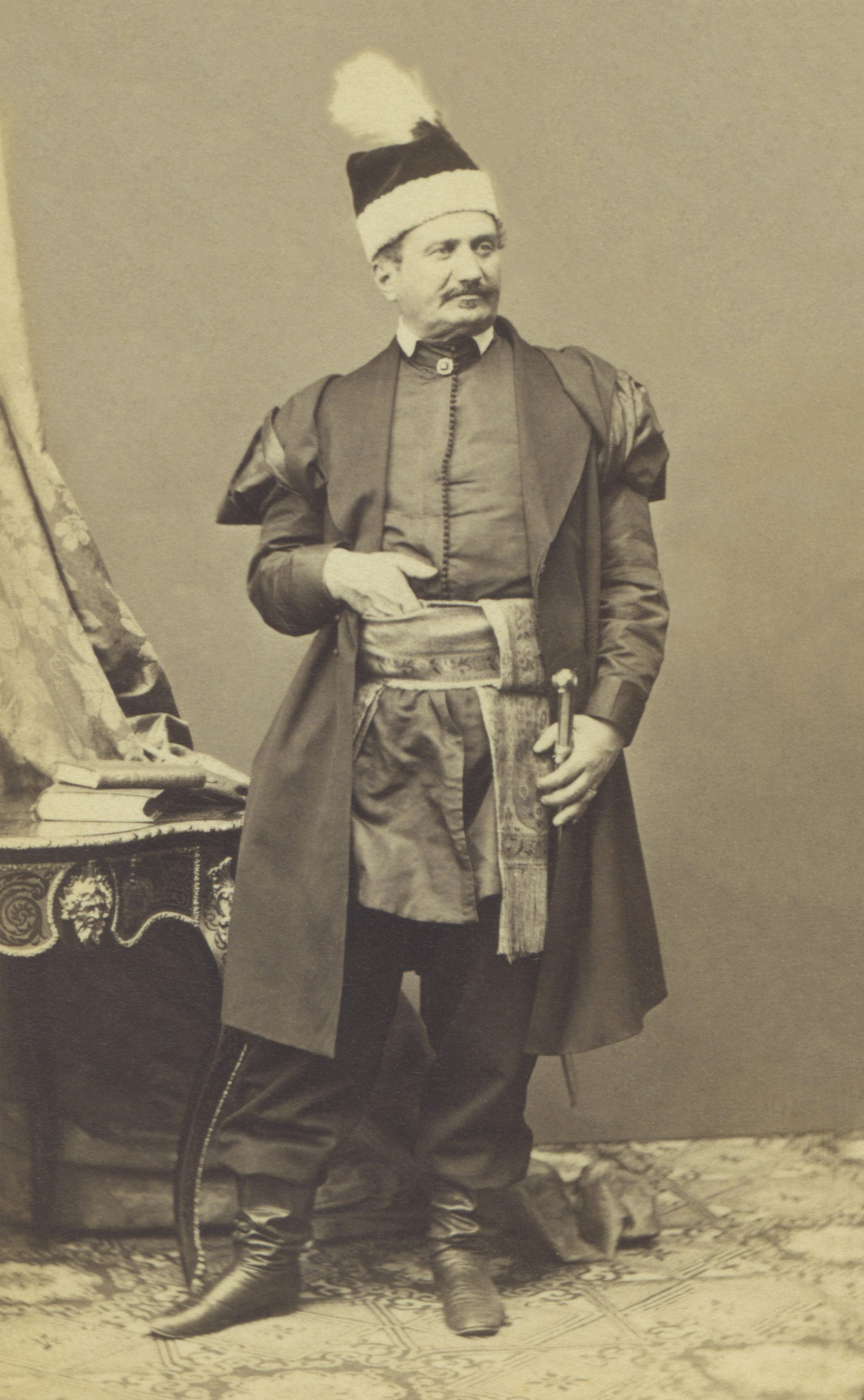 Teofil Wojciech Ostaszewski (1807-1889). The photo was taken most probably in 1861. Photo by: Angerer, k.k. Hof-Photograph, Wien, Feldgasse 1061. Size of the photo: 56 mm x 91 mm